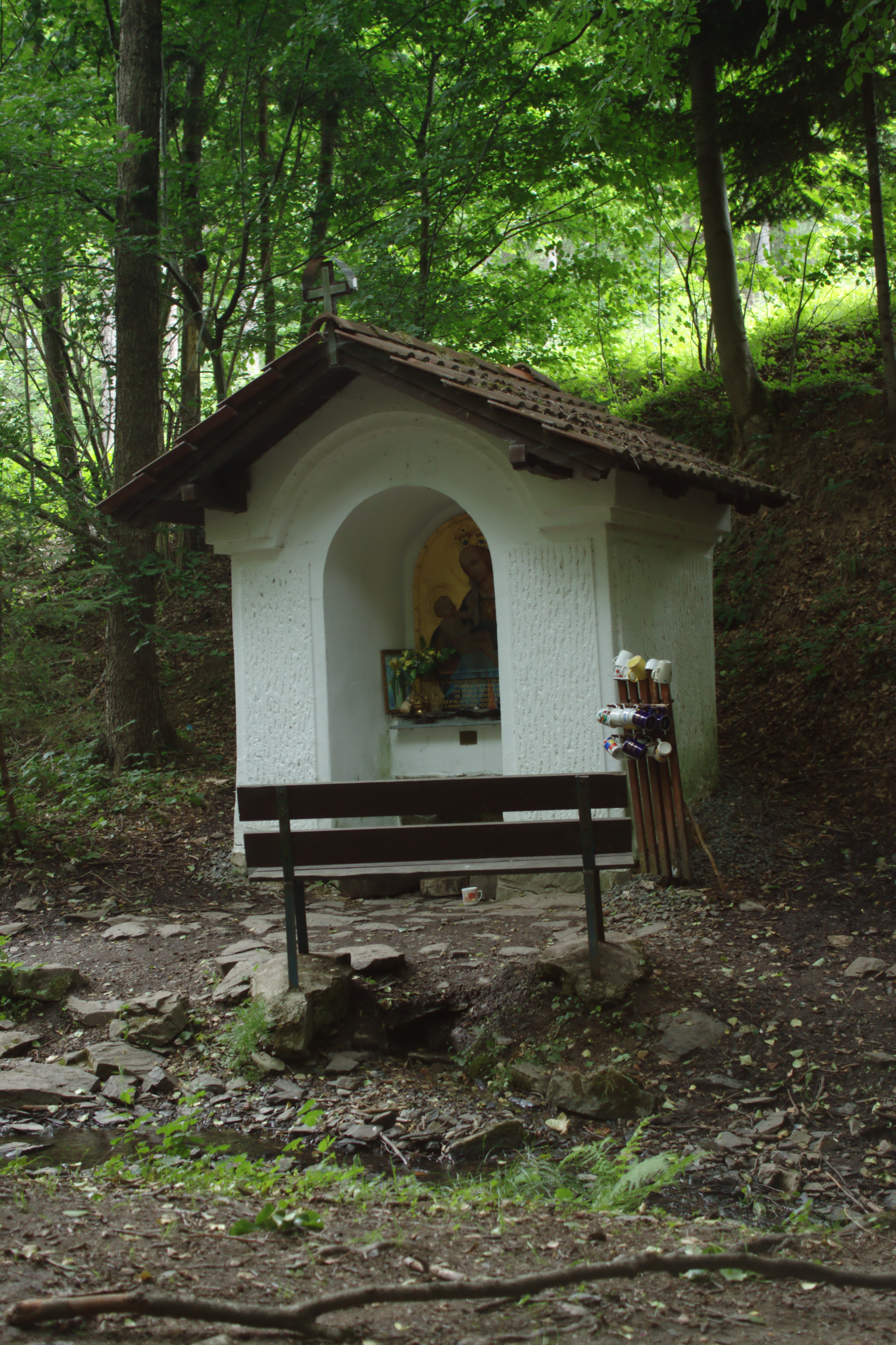 Bratronice healing water spring in Central Bohemian region, CZ